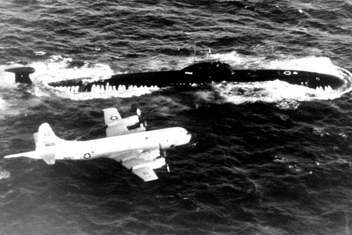 Repository: San Diego Air and Space Museum Archive